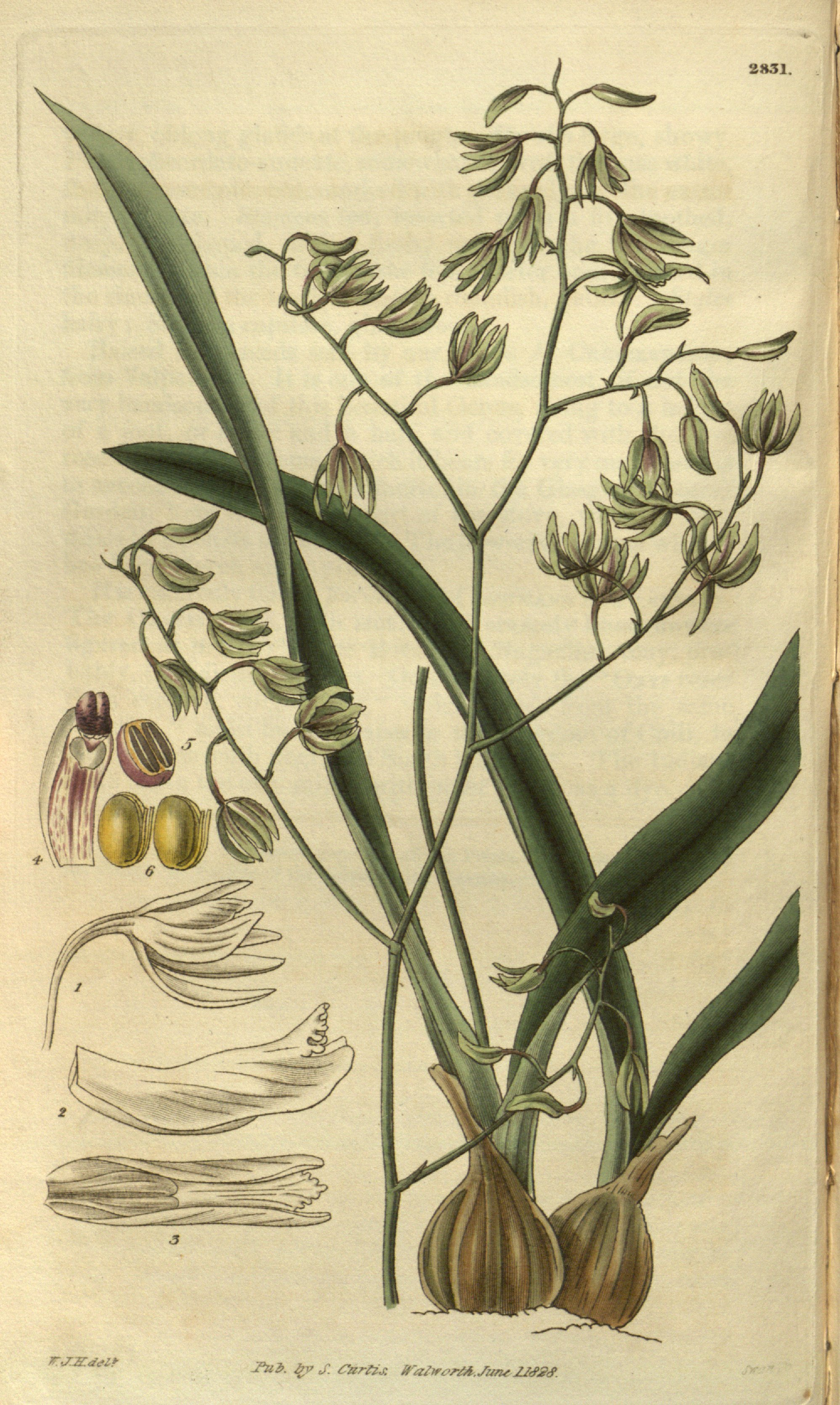 Illustration of Encyclia viridiflora